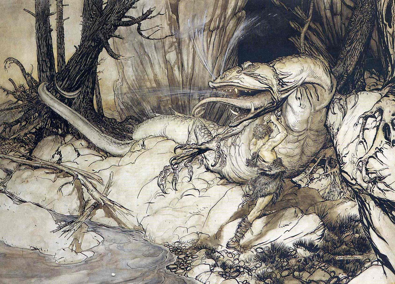 Siegfried kills the dragon Fafnir with Nothung.